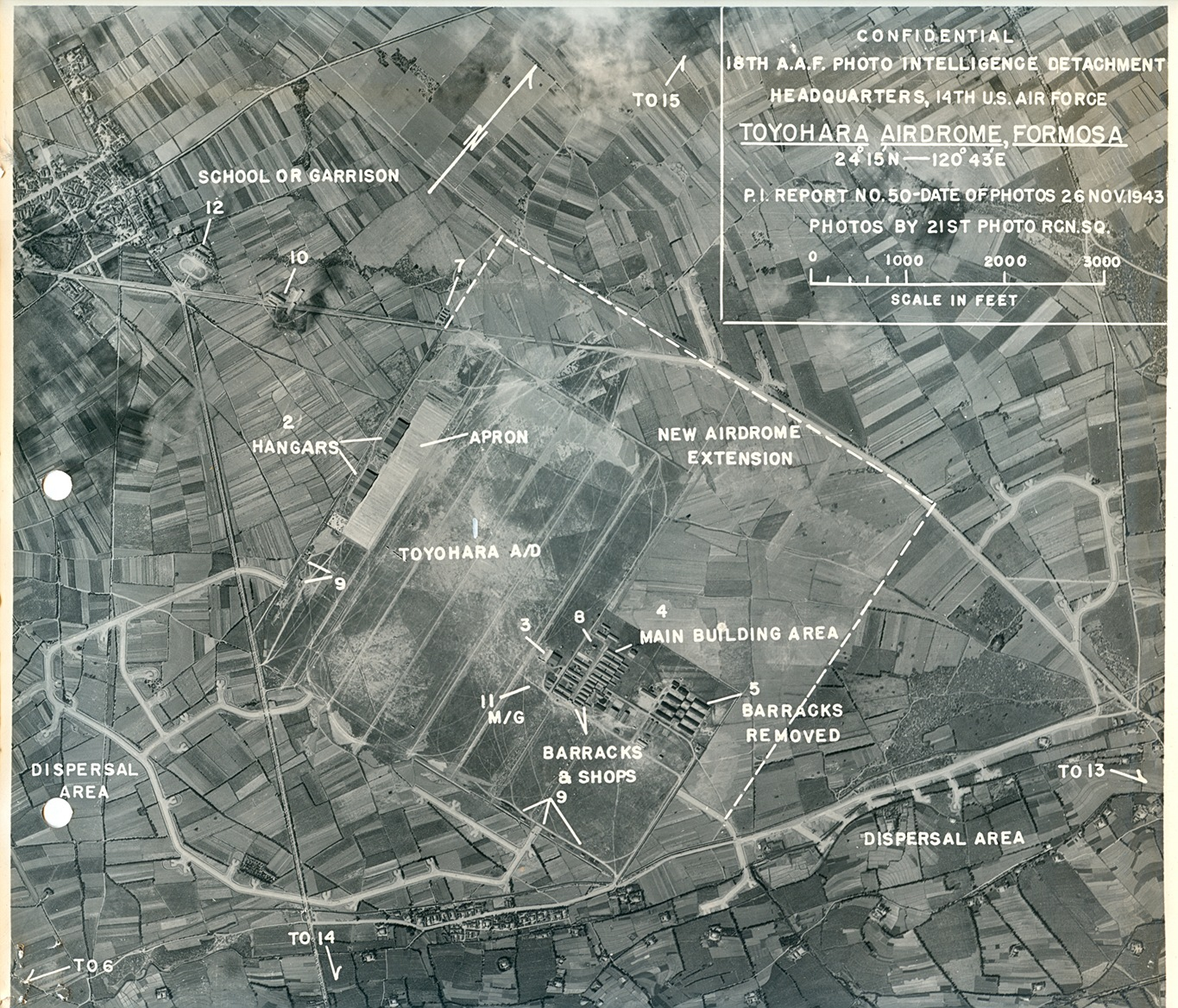 Toyohara Airdrome, 1943. Now Taichung International Airport/Ching-Chuan-Kang Air Force Base.